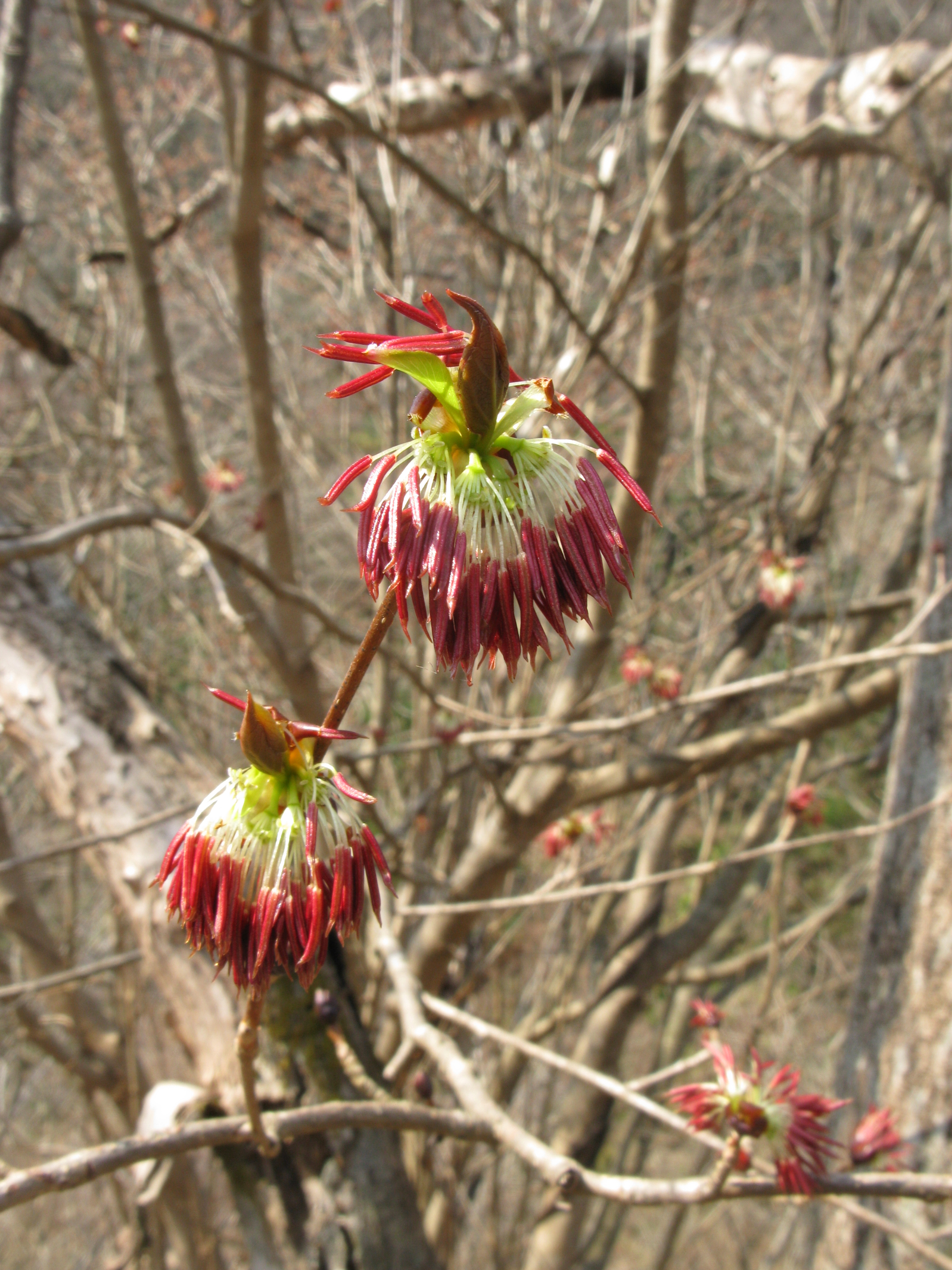 Euptelea polyandra,Aizu area,Fukushima pref.,Japan